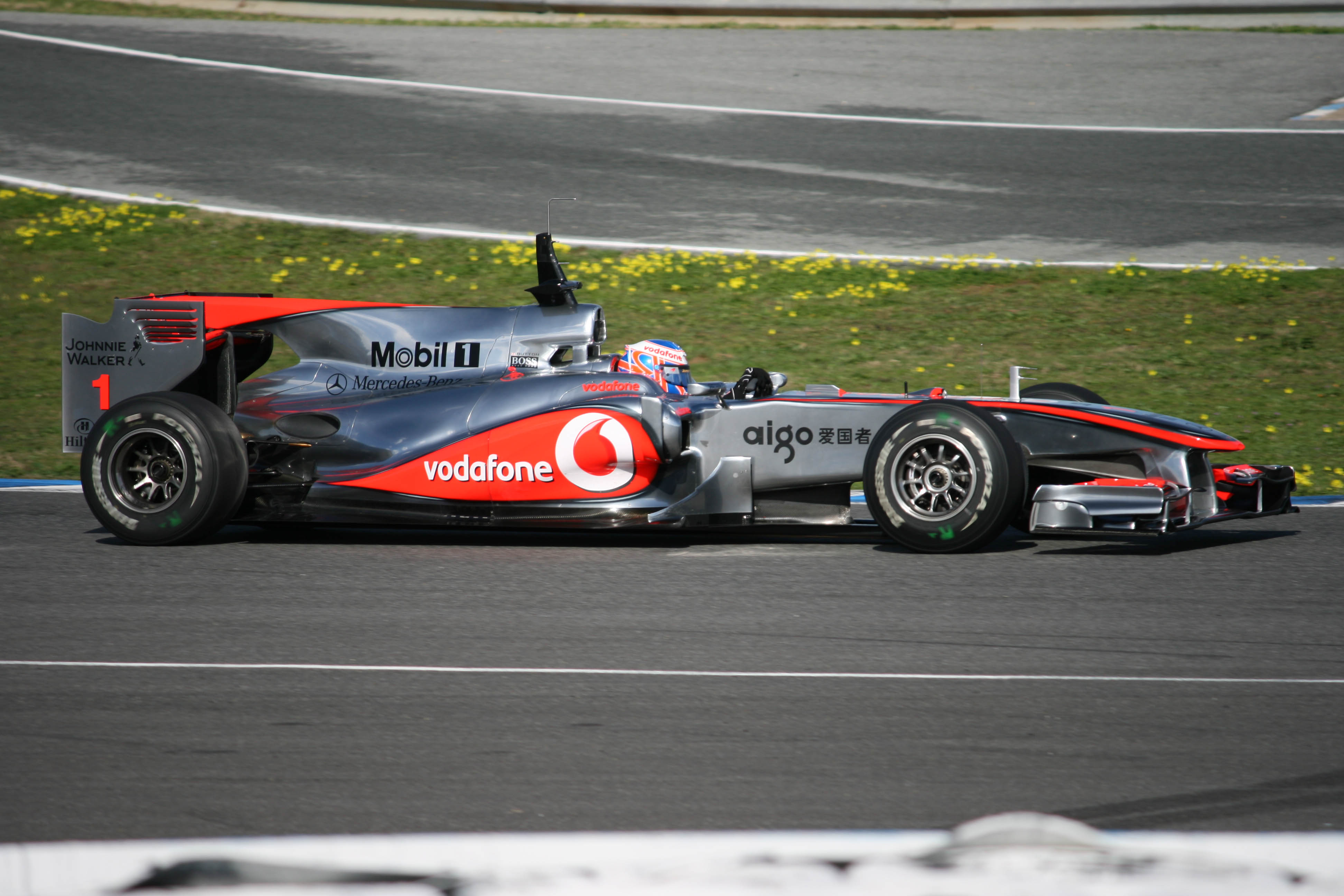 Jenson Button testing for McLaren at Jerez, 11/02/2010.